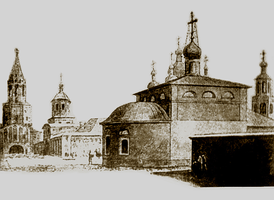 Transfiguration monastery in Kazan Kremlin. Left to right: Spaskaya tower and The Holy Face church, gateway church of Transfiguration monastery (at the place where later new belfry was erected), Kiprian and Iustinia church in the front and monastery’s Transfiguration cathedral behind it, old belfry at the far right. Old picture.